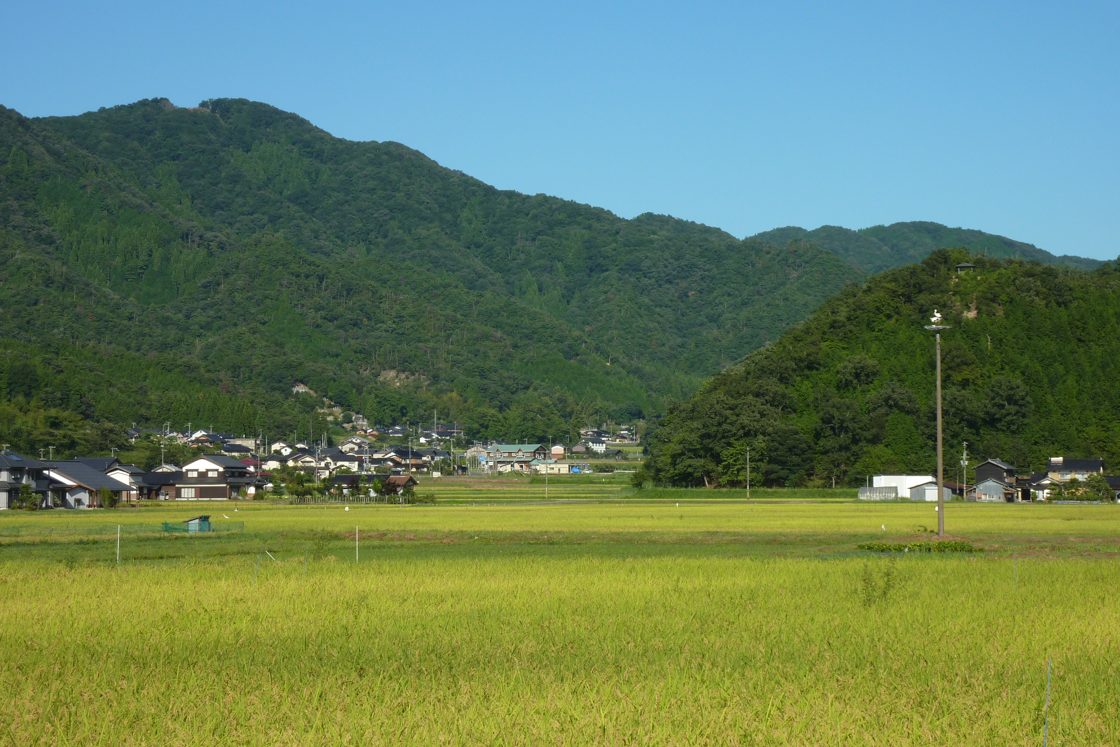 Oriental stork on the artifical nest pillar on the right in Toyooka, Hyogo Prefecture, Japan.